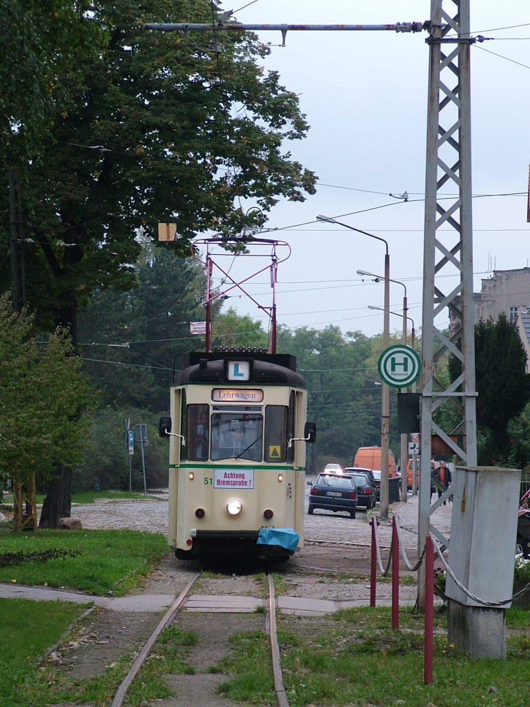 Tramcar 51 (type Rekowagen/TZ 70/1) of the Naumburg tram at Poststrasse stop